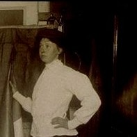 Charlotte Marsh, Dorothy Radcliffe and Elsa Gye 22 Dec1908